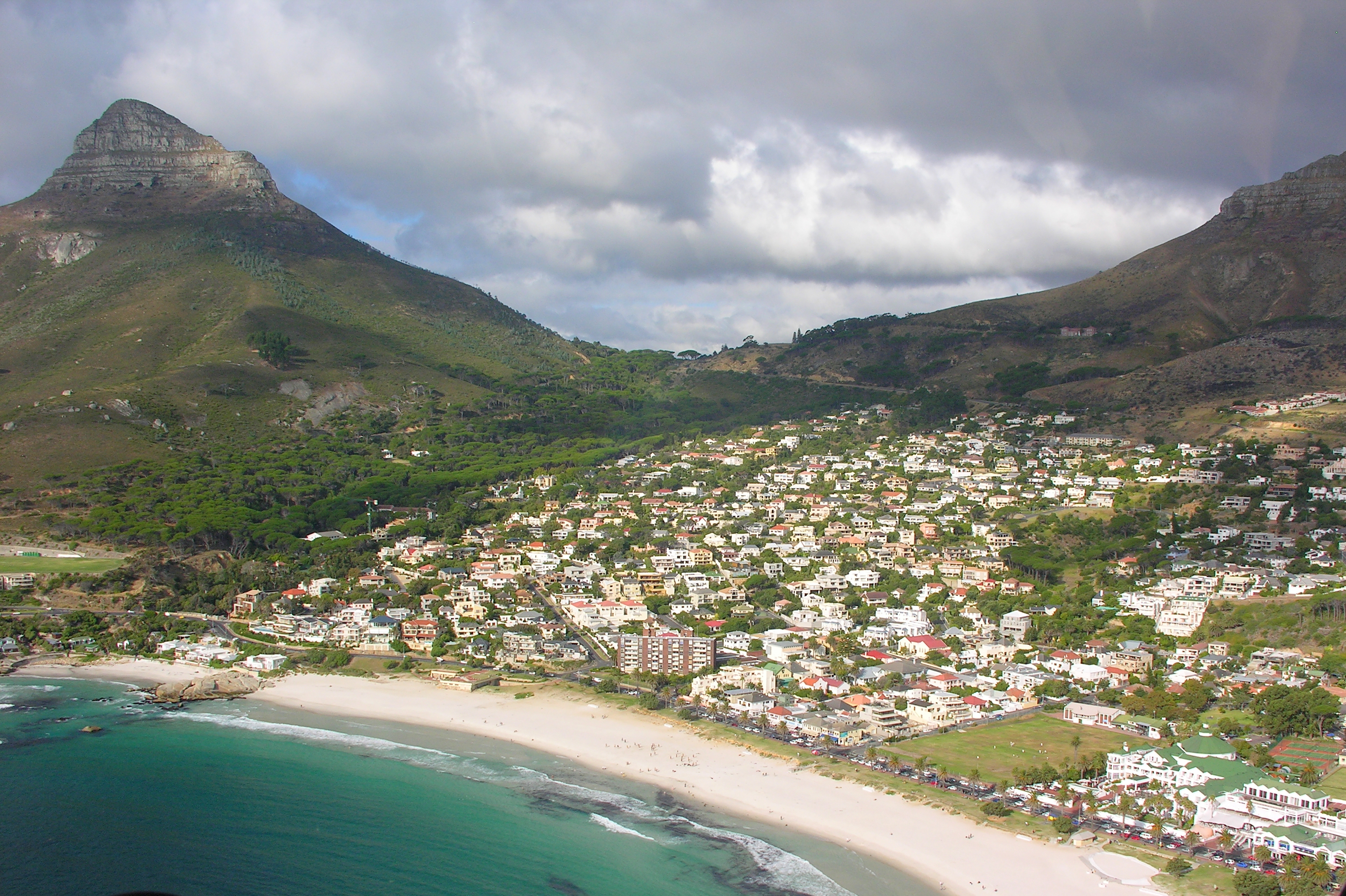 South Africa, Aerial views around Cape Town. For exact location see geocode.